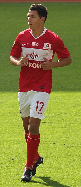 Marek Suchý